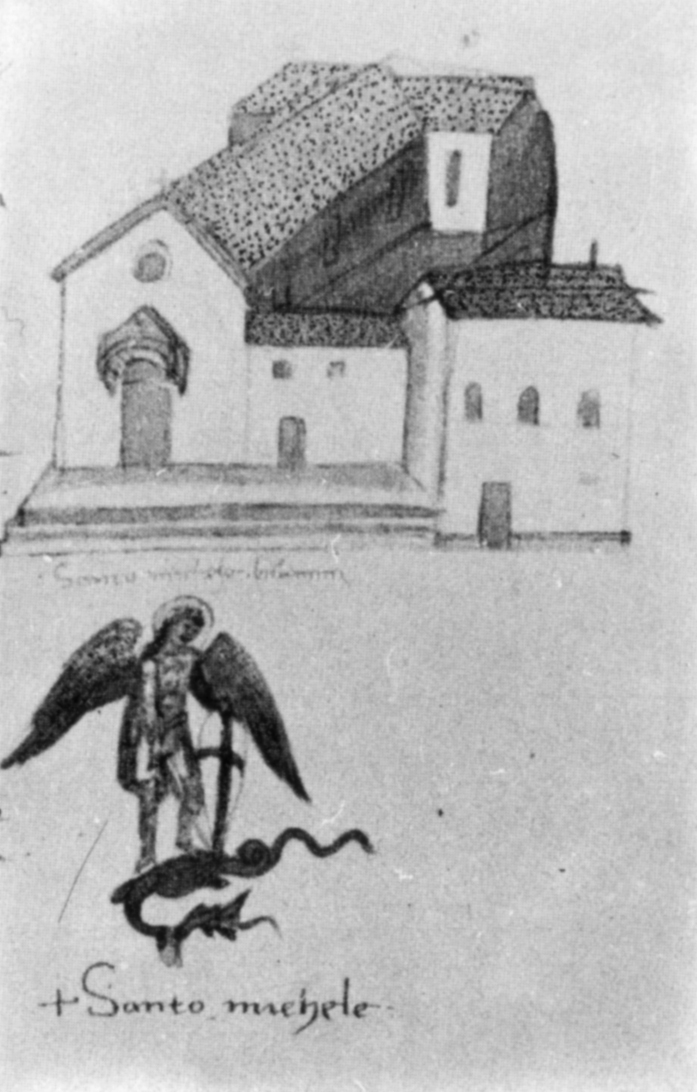 Depiction of San Michele Visdomini from the Codice Rustici (illuminated manuscript)